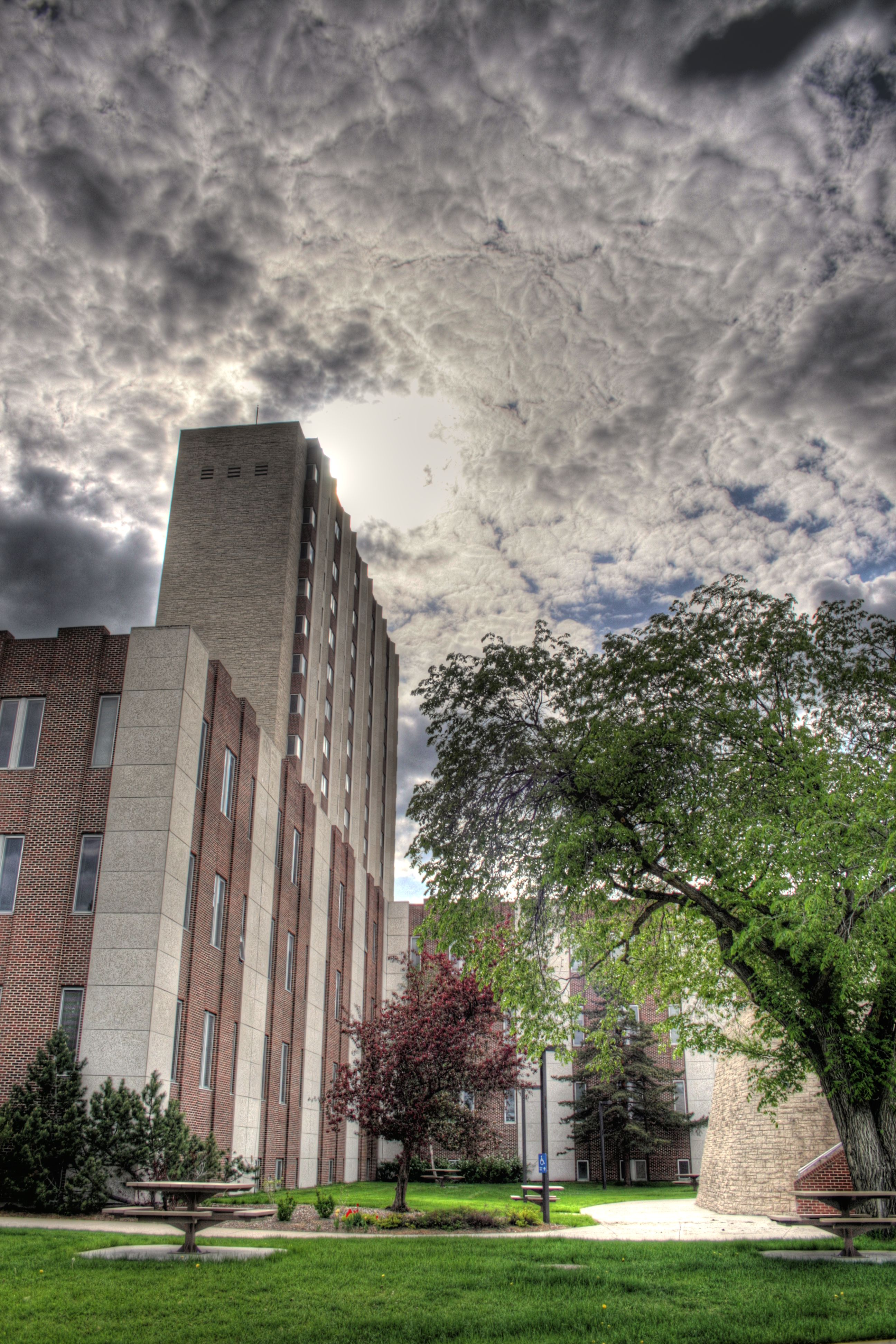 The Henry Marshall Tory Building on the campus of the University of Alberta, Edmonton, Alberta, Canada.